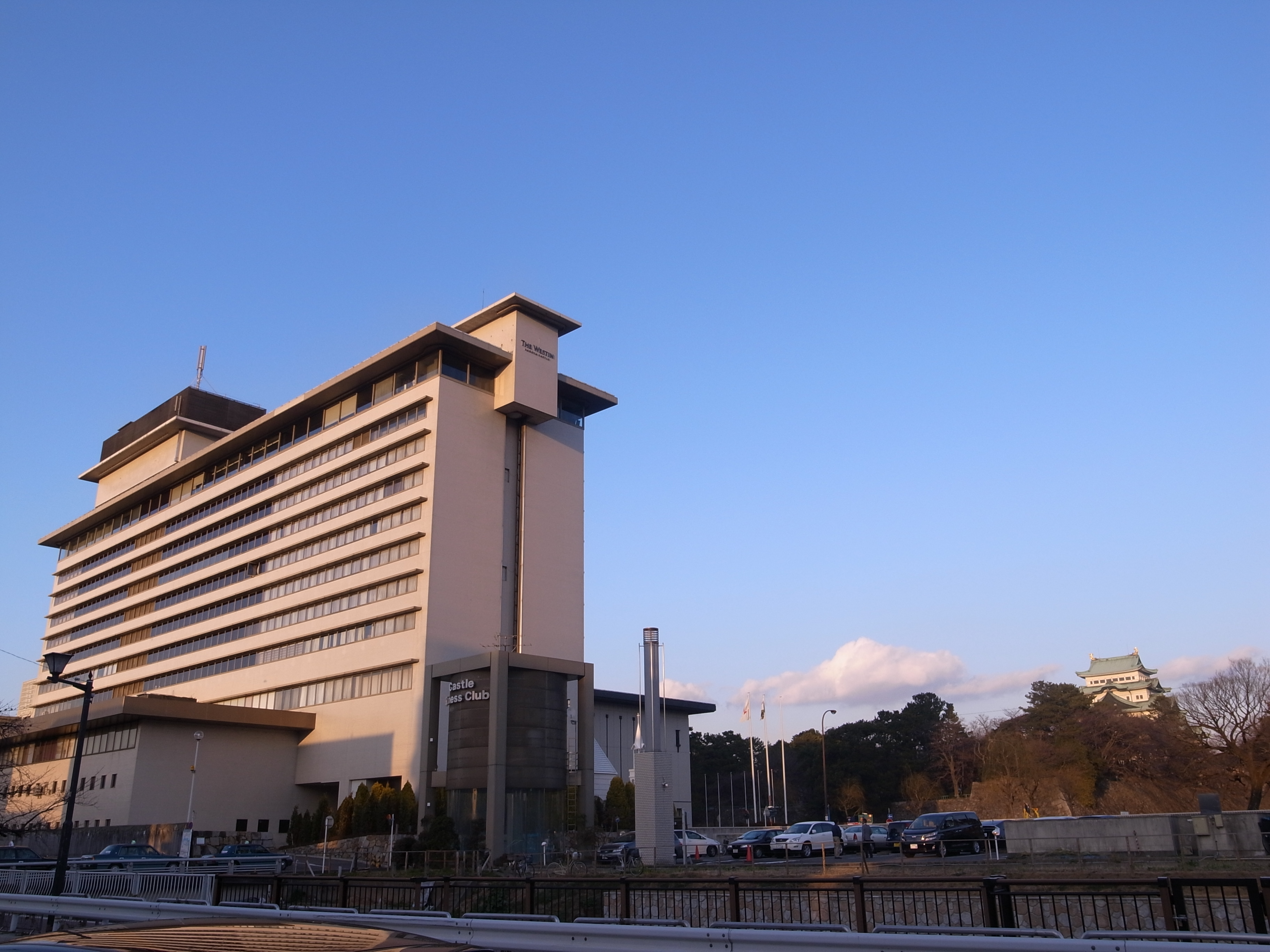 The Westin Nagoya Castle